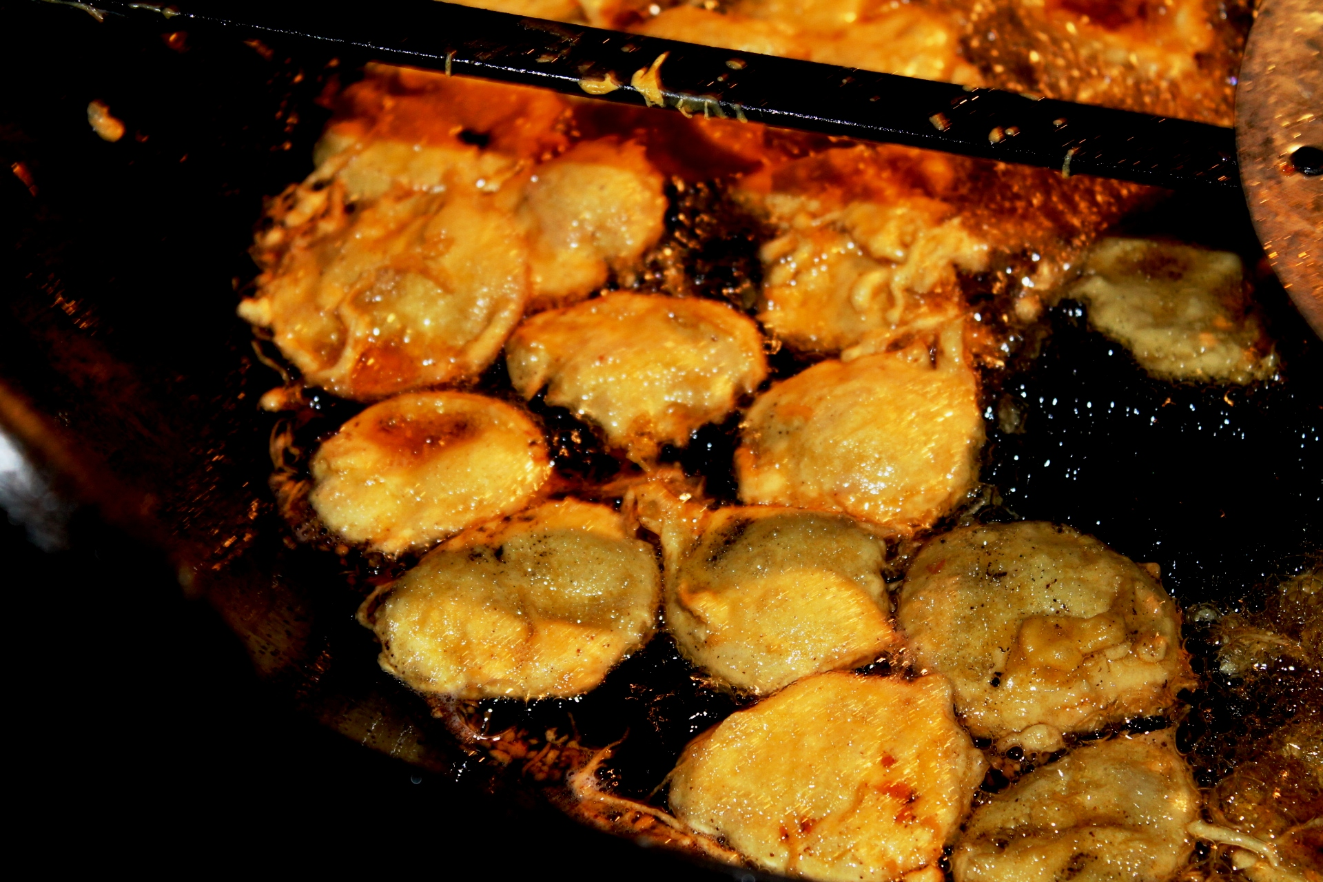 wada pav